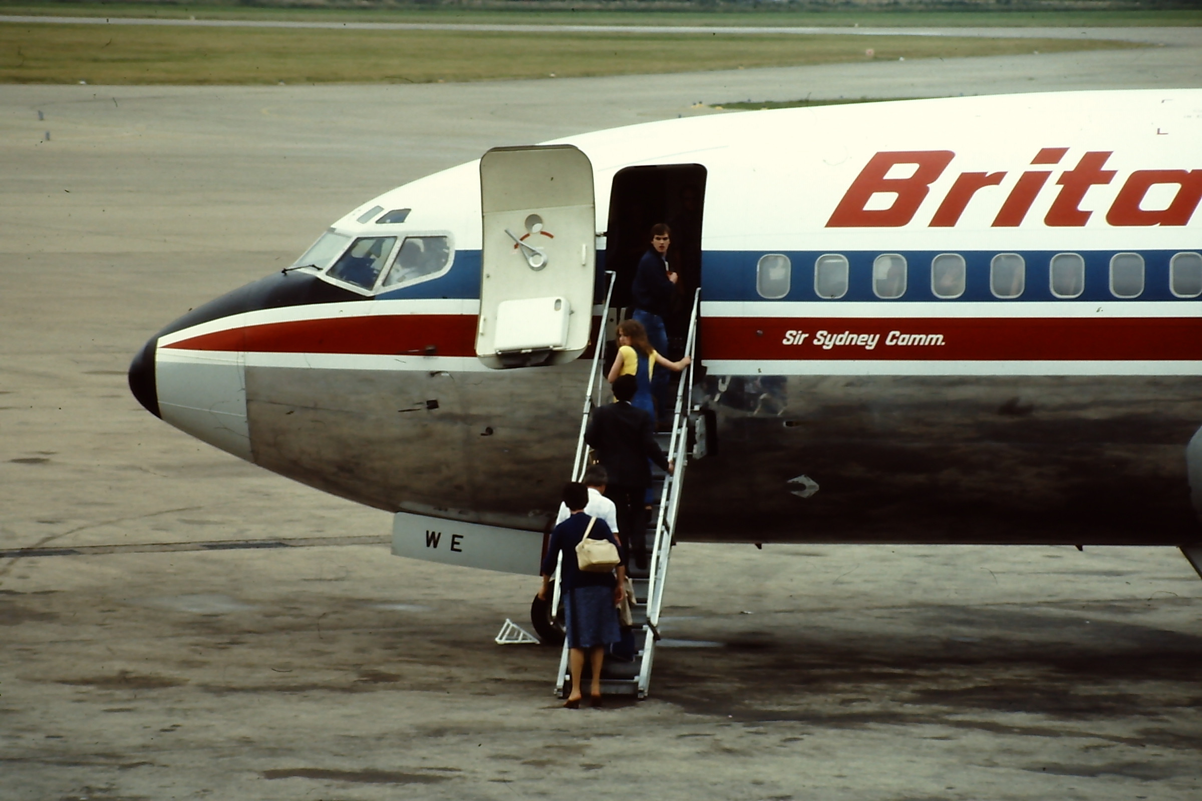 Britannia Airways Boeing 737-200 G-BHWE at East Midlands Airport, England in 1982